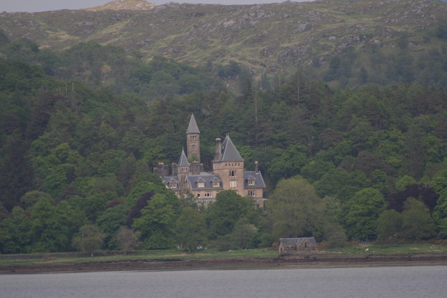 Ardtornish This shot was taken from the ferry terminal using 300mm lens